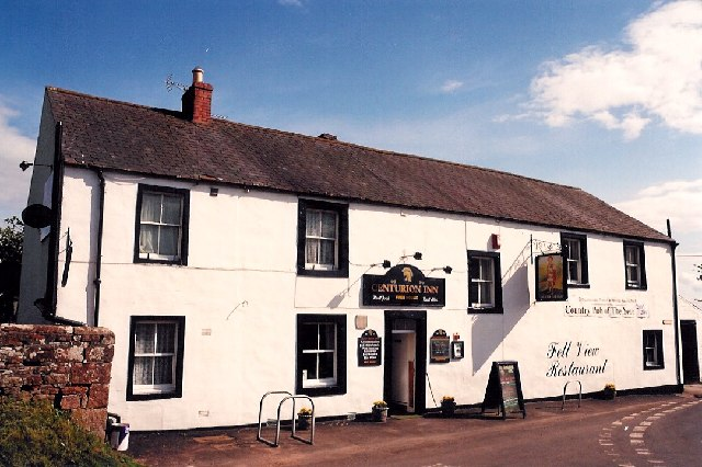 The Centurion at Walton. The village of Walton lies on Hadrian's Wall and is a popular stop-over for walkers on the National Trail.